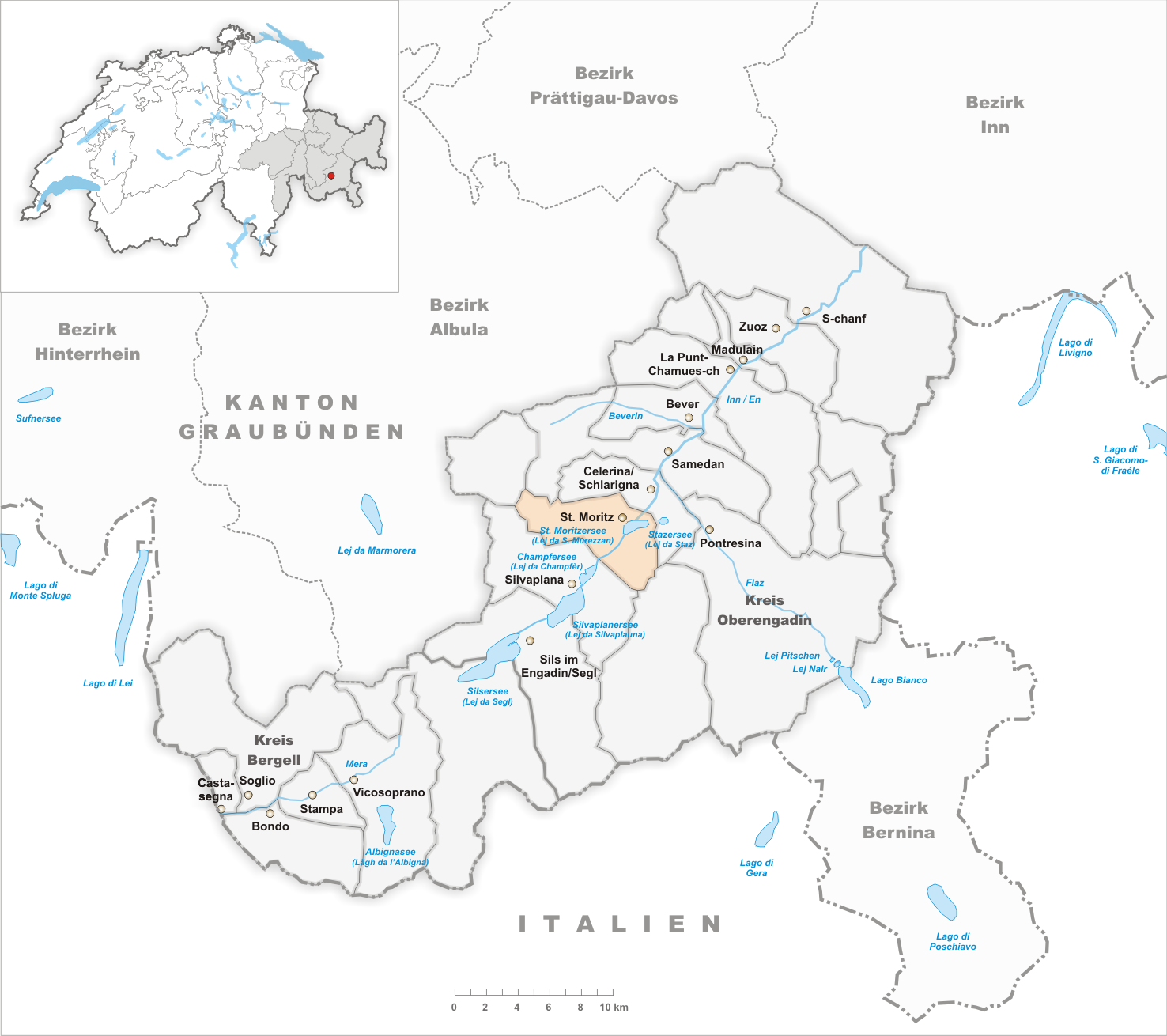 Municipality St. Moritz